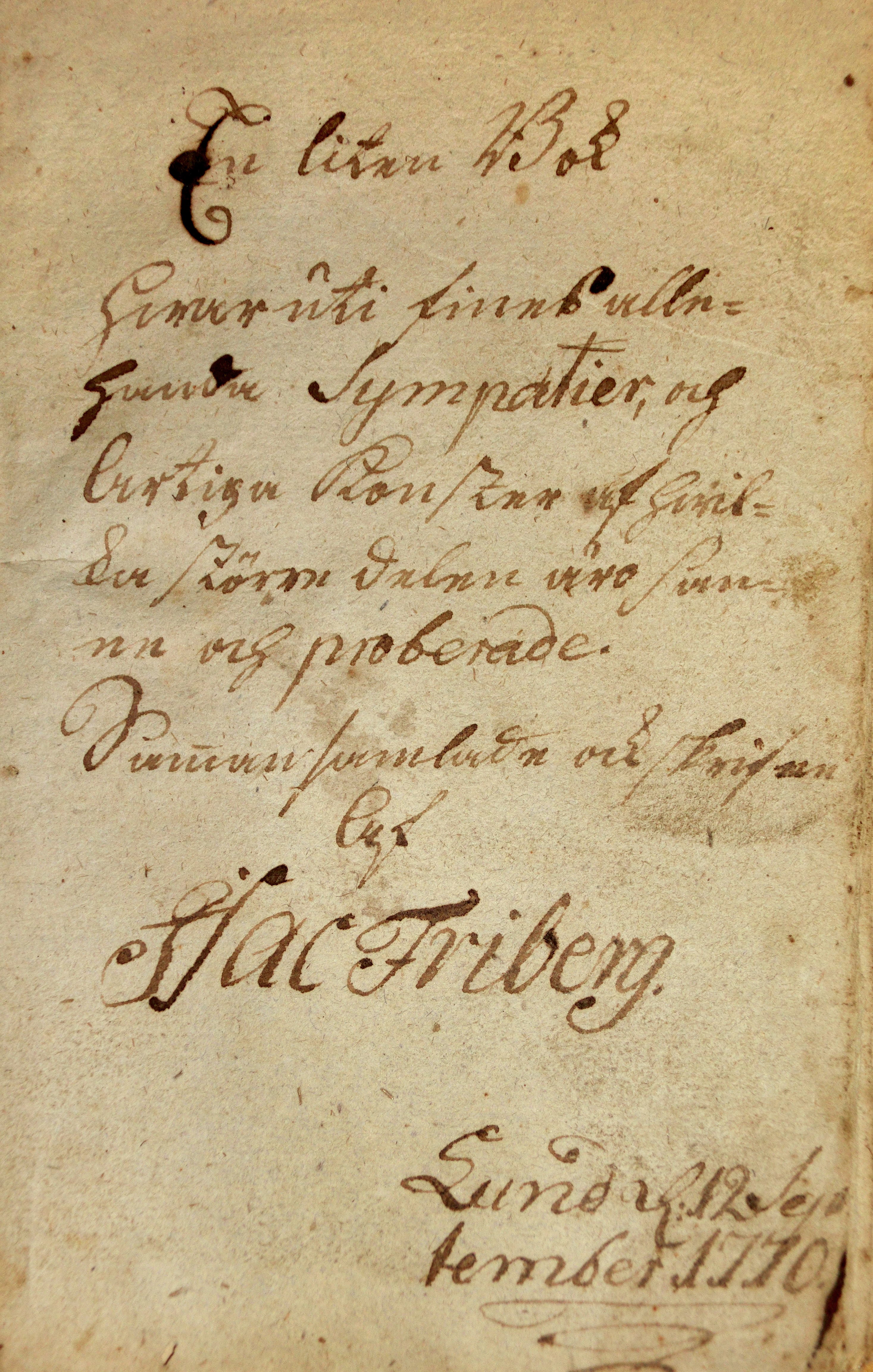 The title page of the handwritten grimoire En liten Bok hwaruti finns allehanda Sympatier, och Artiga Konster af hwilka större delen äro sanne och proberade (1770) by Isac Friberg.